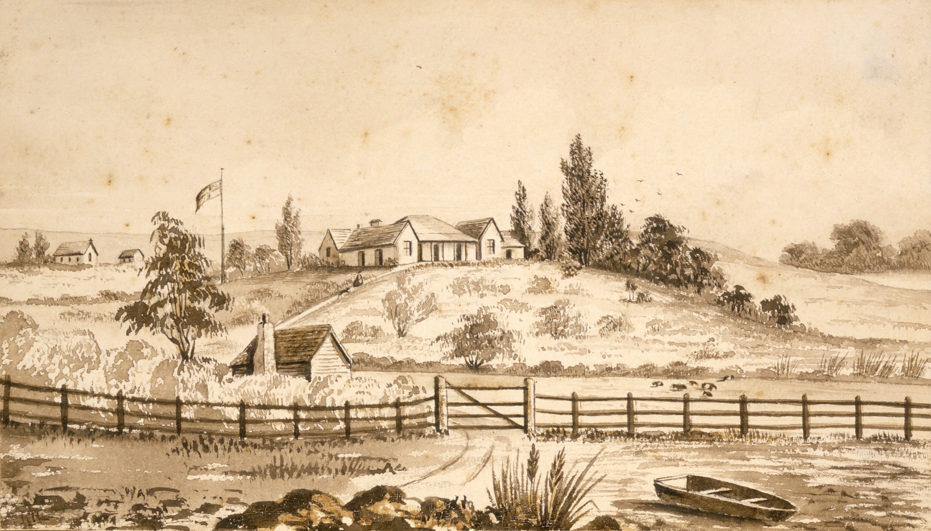 A boat on a shore in the foreground, in front of a fence and gate. Beyond the fence, on a low hill, is a large single-storied house, with several outbuildings, and a flag flying to the left. The house, owned by Hon T Houghton Bartley, is surrounded by a well-developed garden. Stokes' Point (these days, the locality is the northern landing of the Auckland Harbour Bridge on the North Shore).